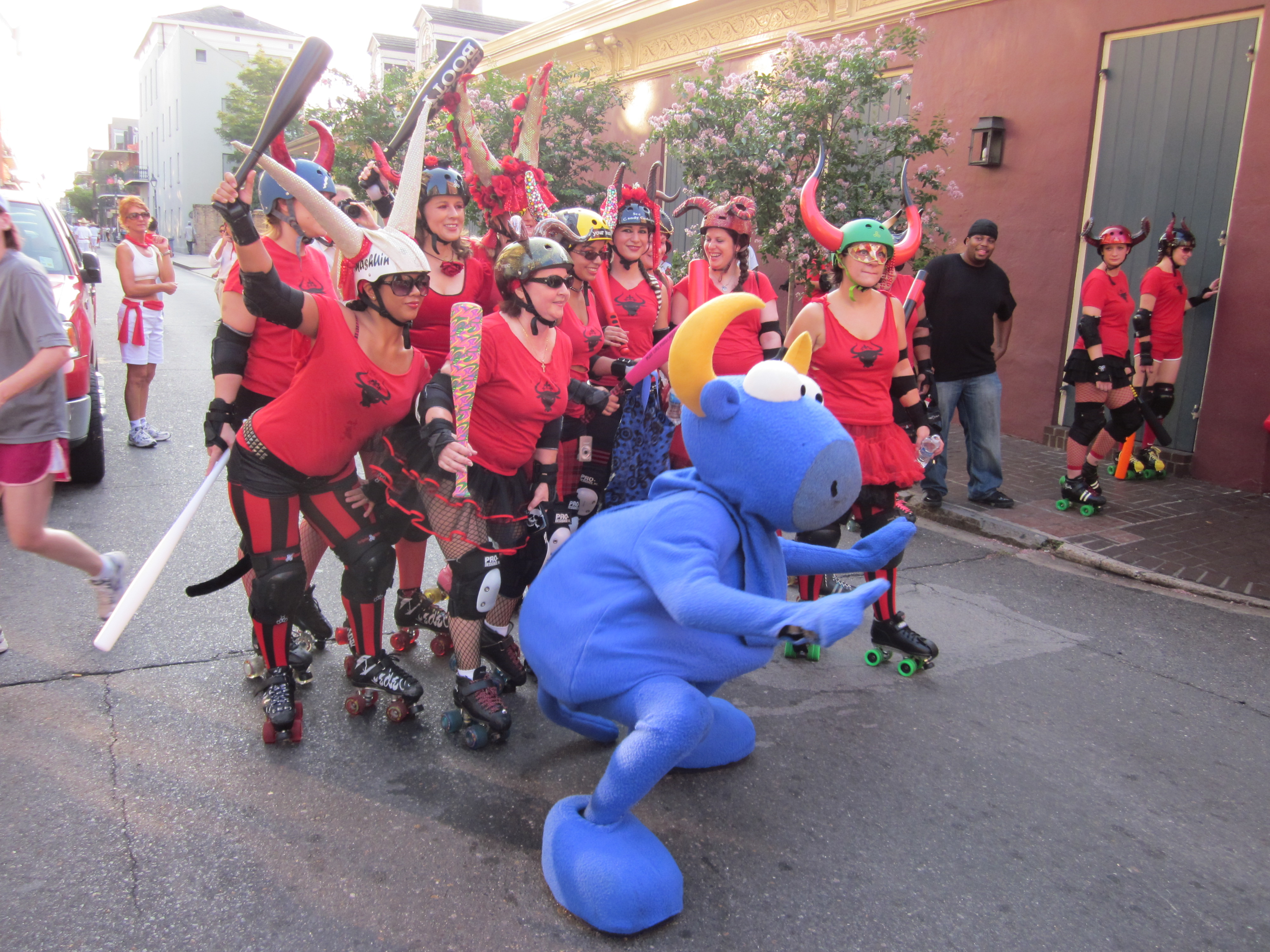 "Running of the Bulls" in the French Quarter of New Orleans. Roller Girls (the mock "bulls") with a bull costumer.